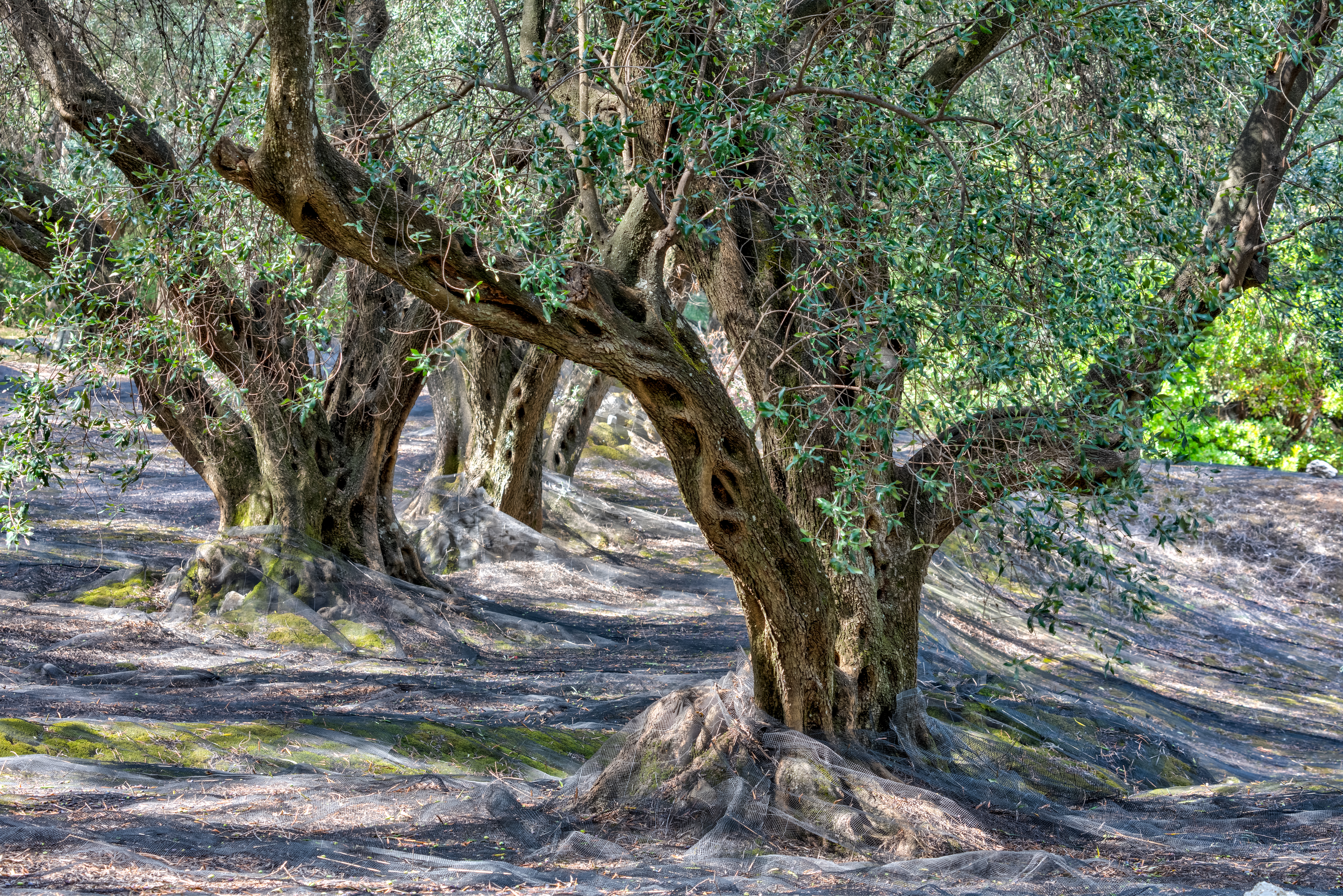 Olive grove near Agii Douli, Corfu, Greece